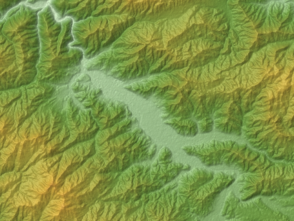 Furukawa-kokufu Basin in Gifu Prefecture, Honshu, Japan.